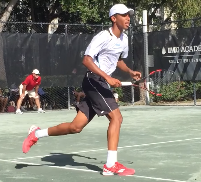 Felix Auger-Aliassime in final of Eddie Herr ITF, IMG Academy, Bradenton Florida, December 6, 2015.